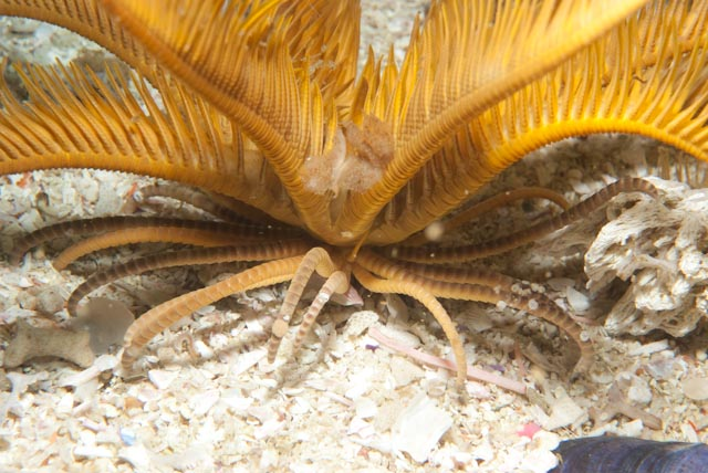 A photograph of the cirri of an elegant feather star, Tropiometra carinata, taken in 22m of water in False Bay Cape Town using a housed Fuji camera.